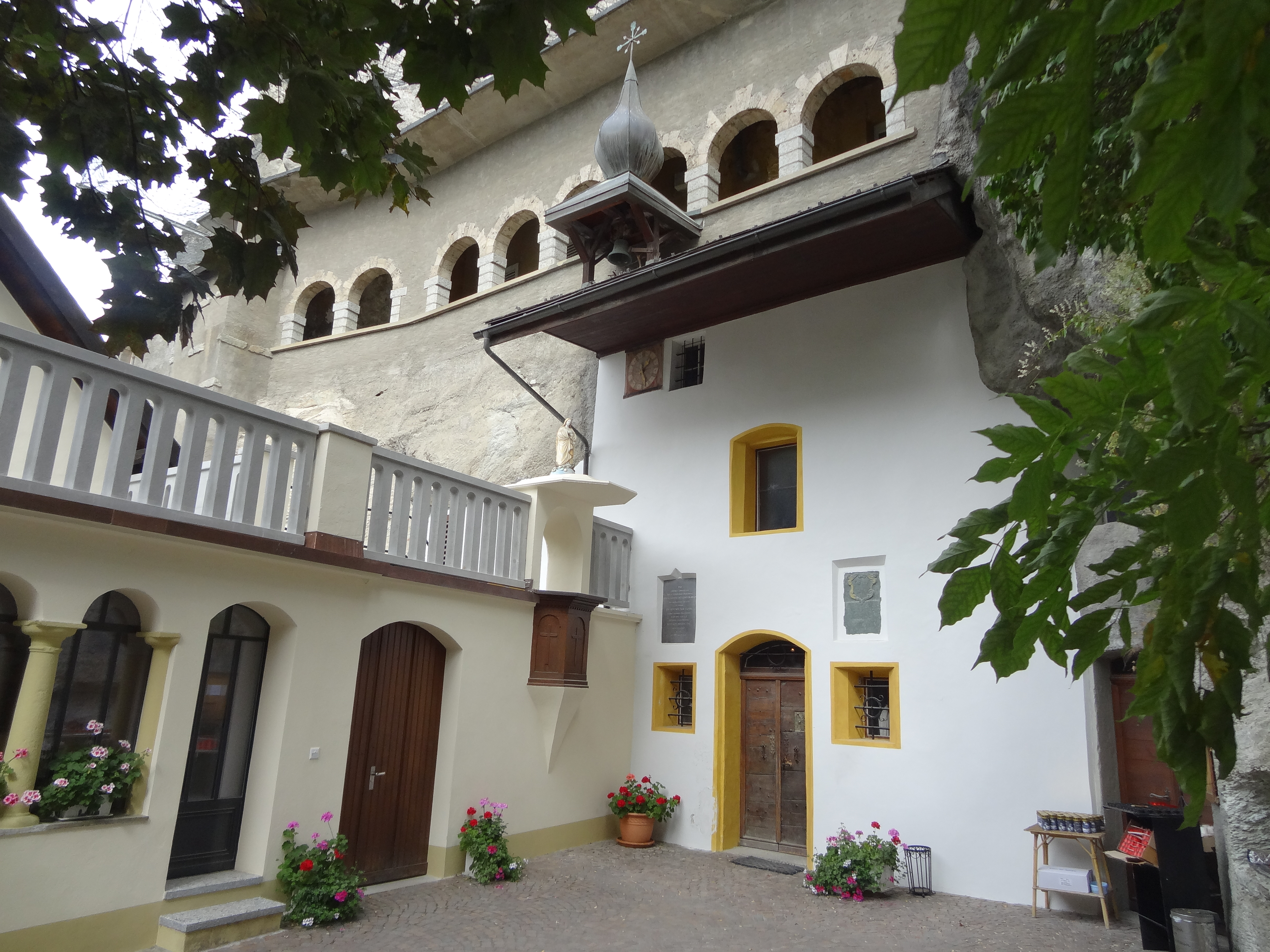 Ermitage de Longeborgne et collection d'ex-voto